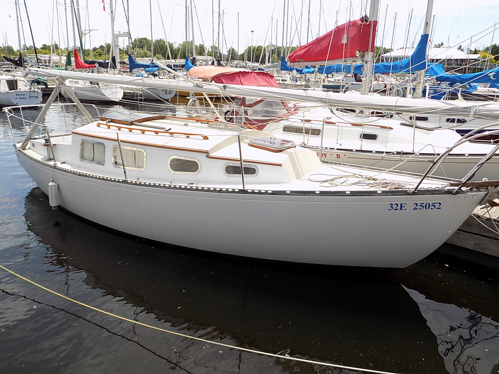 A Grampian 26 sailboat named Jessie J.